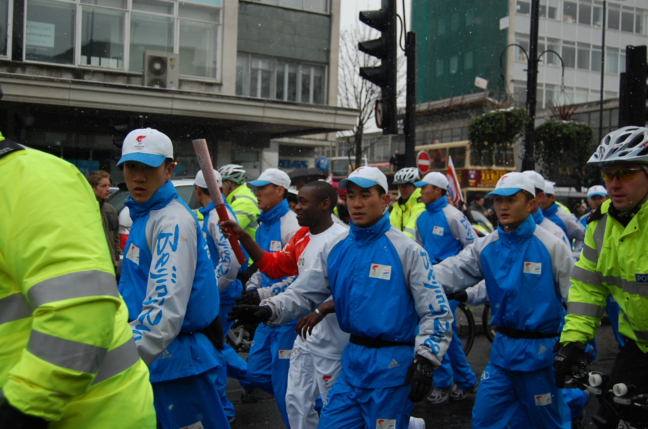 In blue, so called "Flame attendants" (torch's security team), escorting the Olympic Torch as it passes through Notting Hill in London.